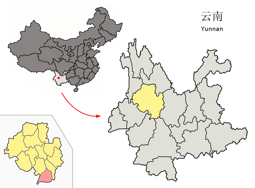 Location of Nanjian County (pink) and Dali Prefecture (yellow) within Yunnan province of China Map drawn in september 2007 using various sources, mainly : Yunnan province administrative regions GIS data: 1:1M, County level, 1990 Yunnan Counties map from